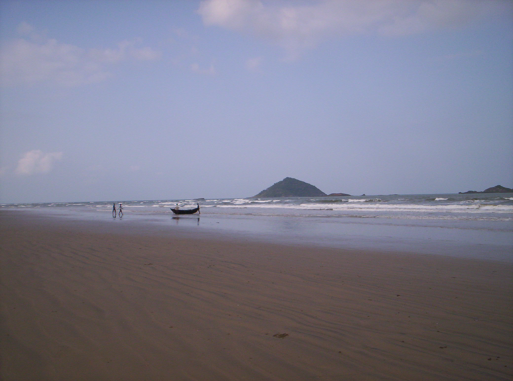 The beach located in Shirali, close to the Mahamaya Mahaganapati temple.